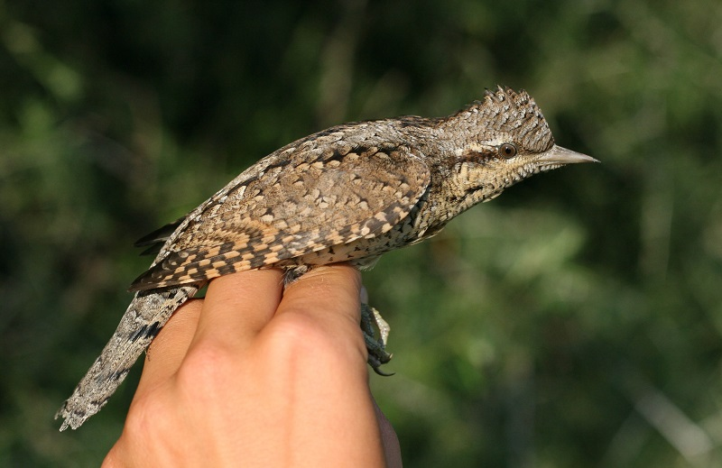 Jynx torquilla (Picidae) (Eurasian Wryneck) - (adult), Chorokhi Delta - Southern Ponds & Wetlands, Georgia